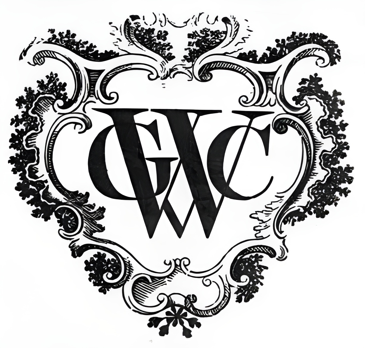 Monogram of the Dutch West India Company. Image of wooden stamp, collection Penningkabibet R.A. 107